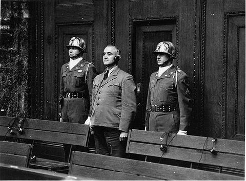 Gottlob Berger, the former head chief of the SS Main Office of the Ministries Trial sit in the dock. [Photograph #16828]